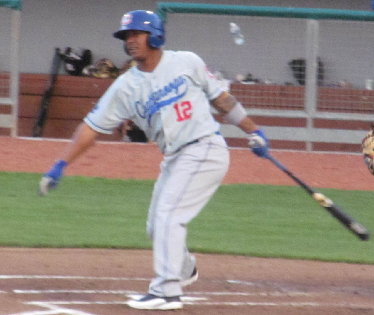 Chattanooga Lookouts vs. Tennessee Smokies - Smokies Park - Kodak, Tennessee - April 9, 2014